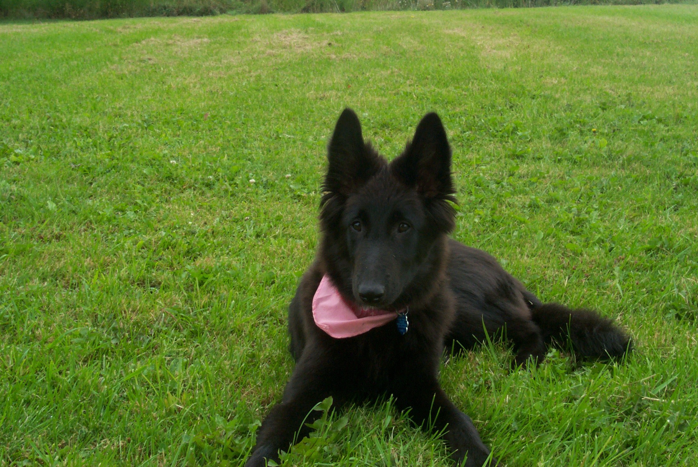 Male Belgian Shepherd Groenendael at 8 months.